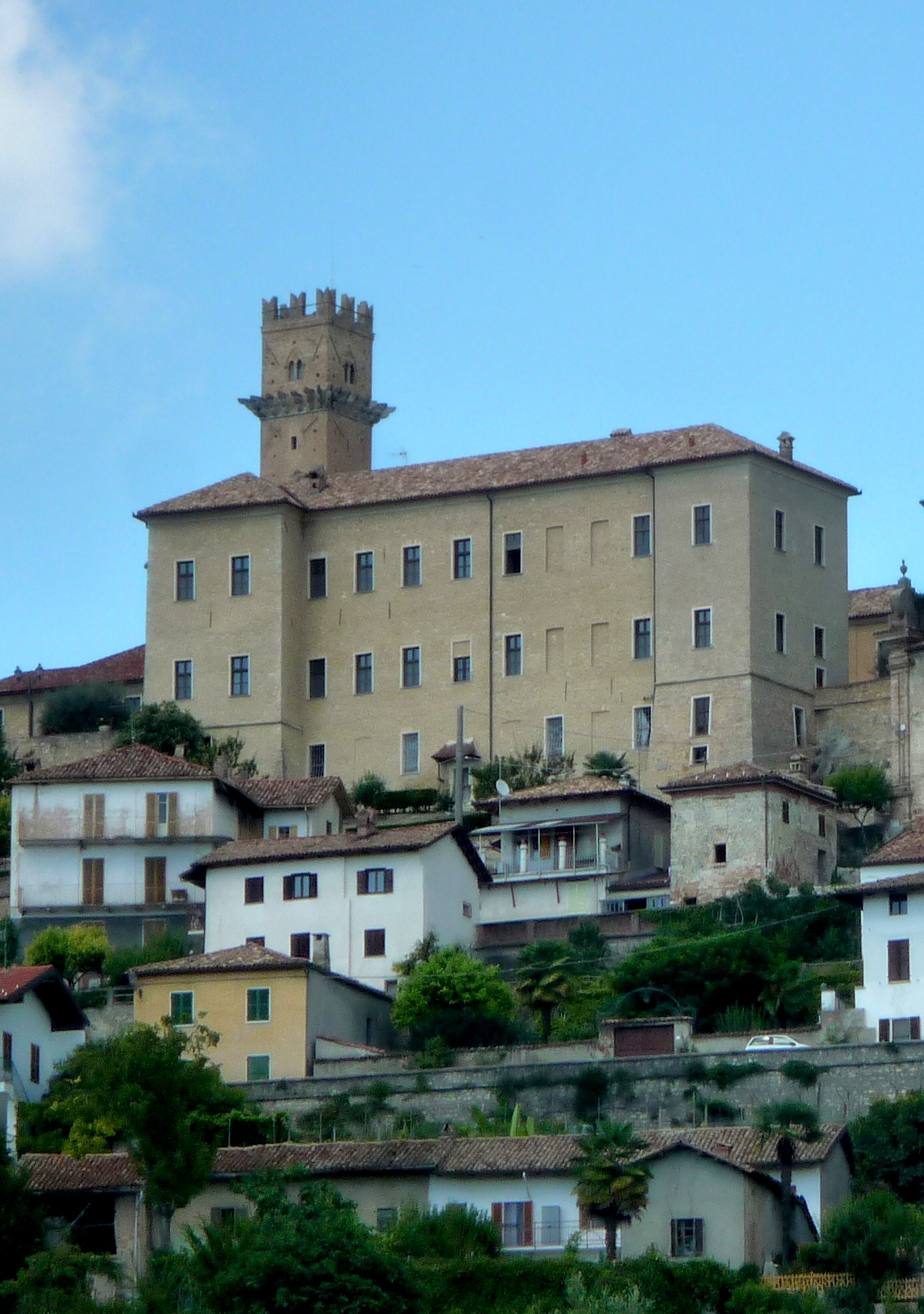 The Castle of Murisengo (AL) after the restorations of 2012.